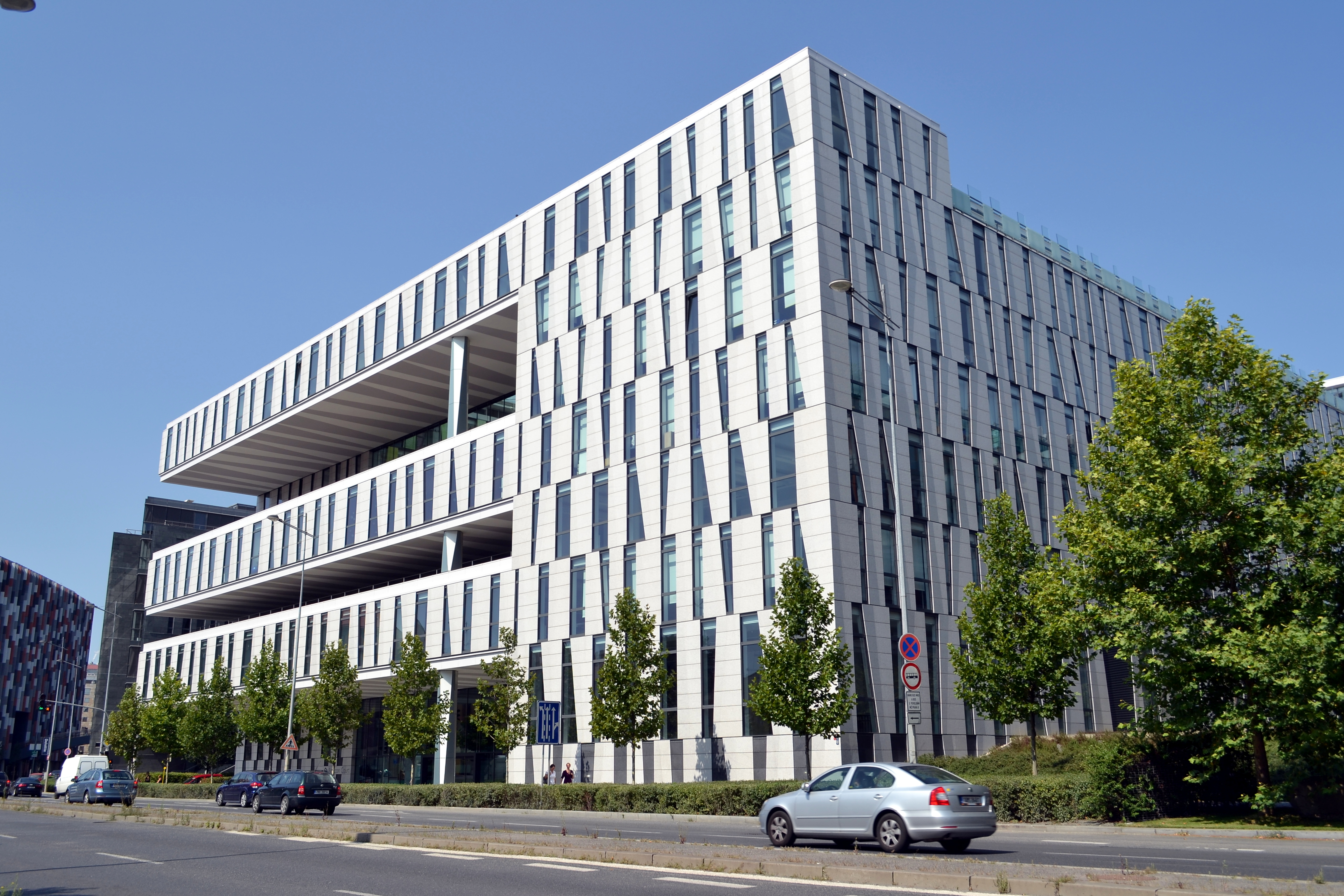 Office building "Amazon Court", Rohanské nábřeží street, Karlín No. 661, Prague 8, Czech Republic.